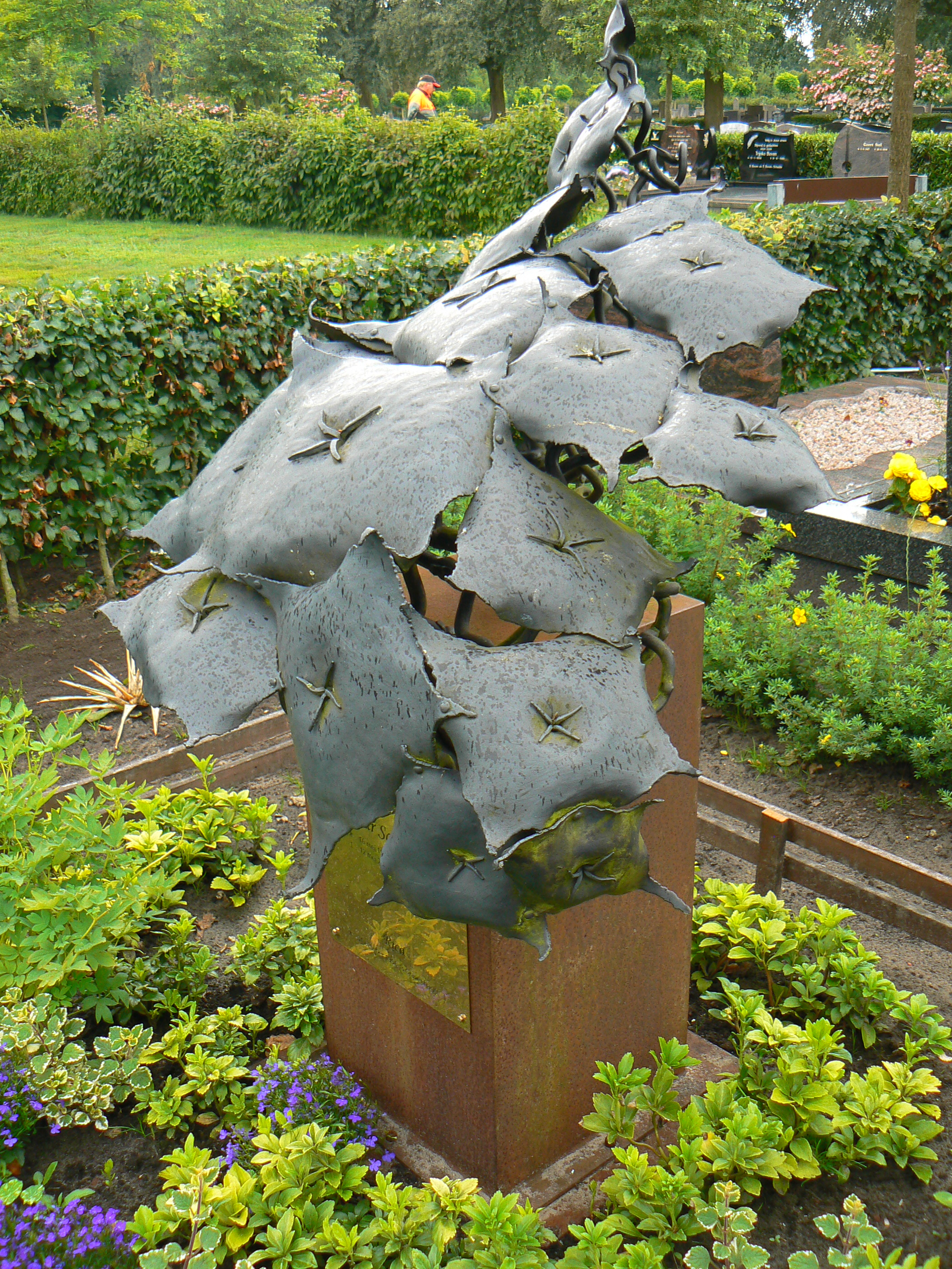 Sculpture by Luc Leenknegt (2007) on Har Sanders grave in Oude pekela/The Netherlands